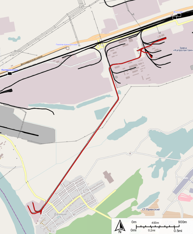 Narrow gauge railway of Caprolactam factory Legend: ━━━ Narrow gauge railway ━━━ Wide gauge railway